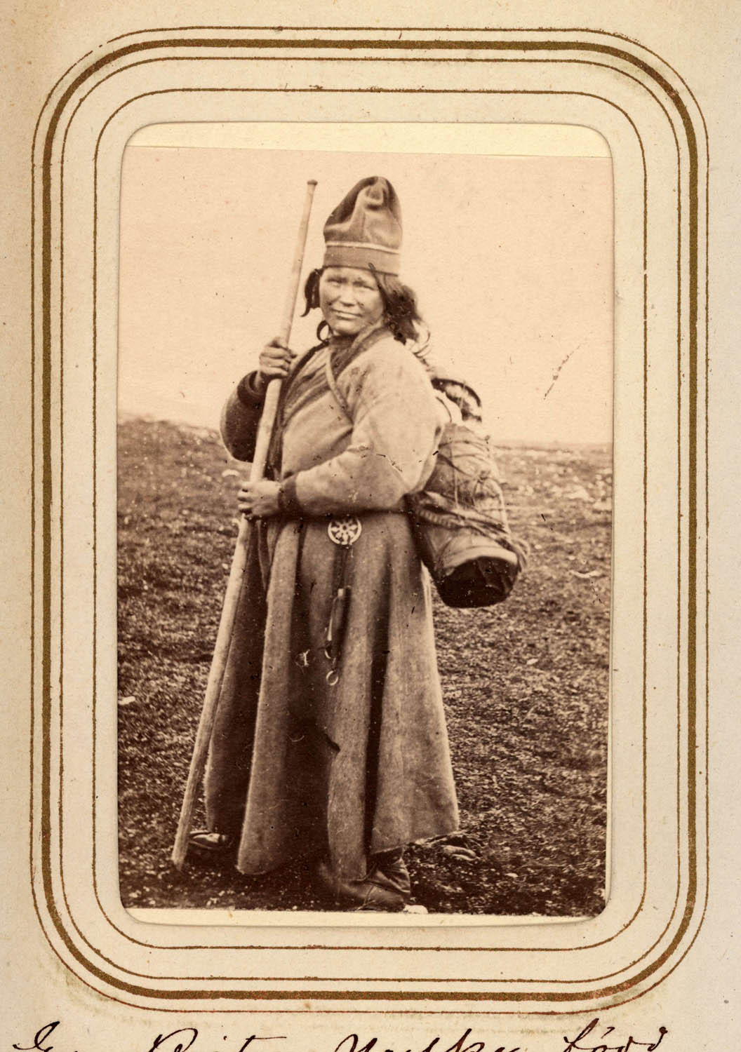 Depicted person: Eva Brita Mulka, Sverige (SE) (born 1839); Granström, Eva Brita Depicted place: Lappland, Lule lappmark, Jokkmokk, Tuorpon (Sverige (SE))